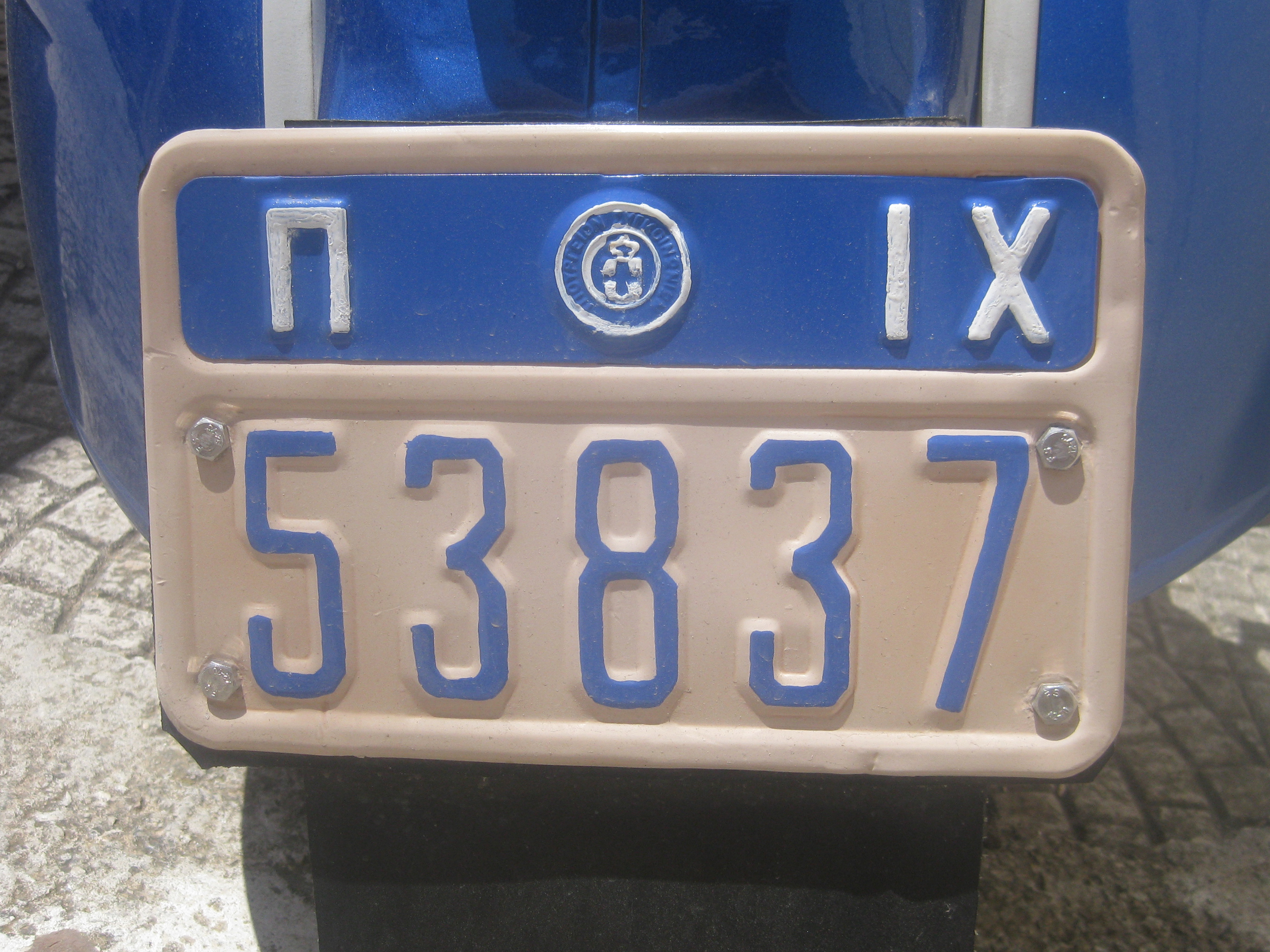 Licence plate of the 1950ies